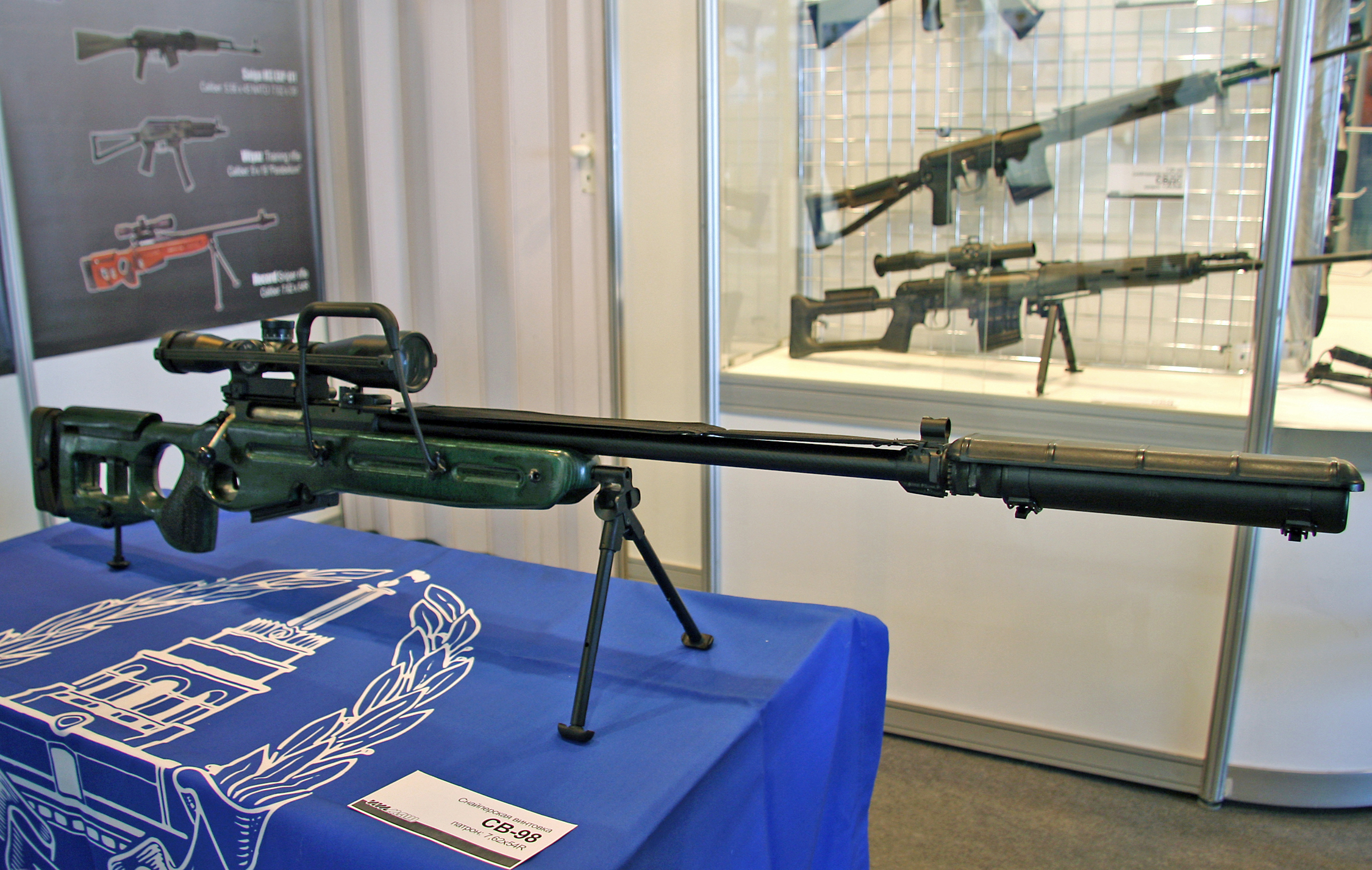 SV-98 in Engineering technologies 2010